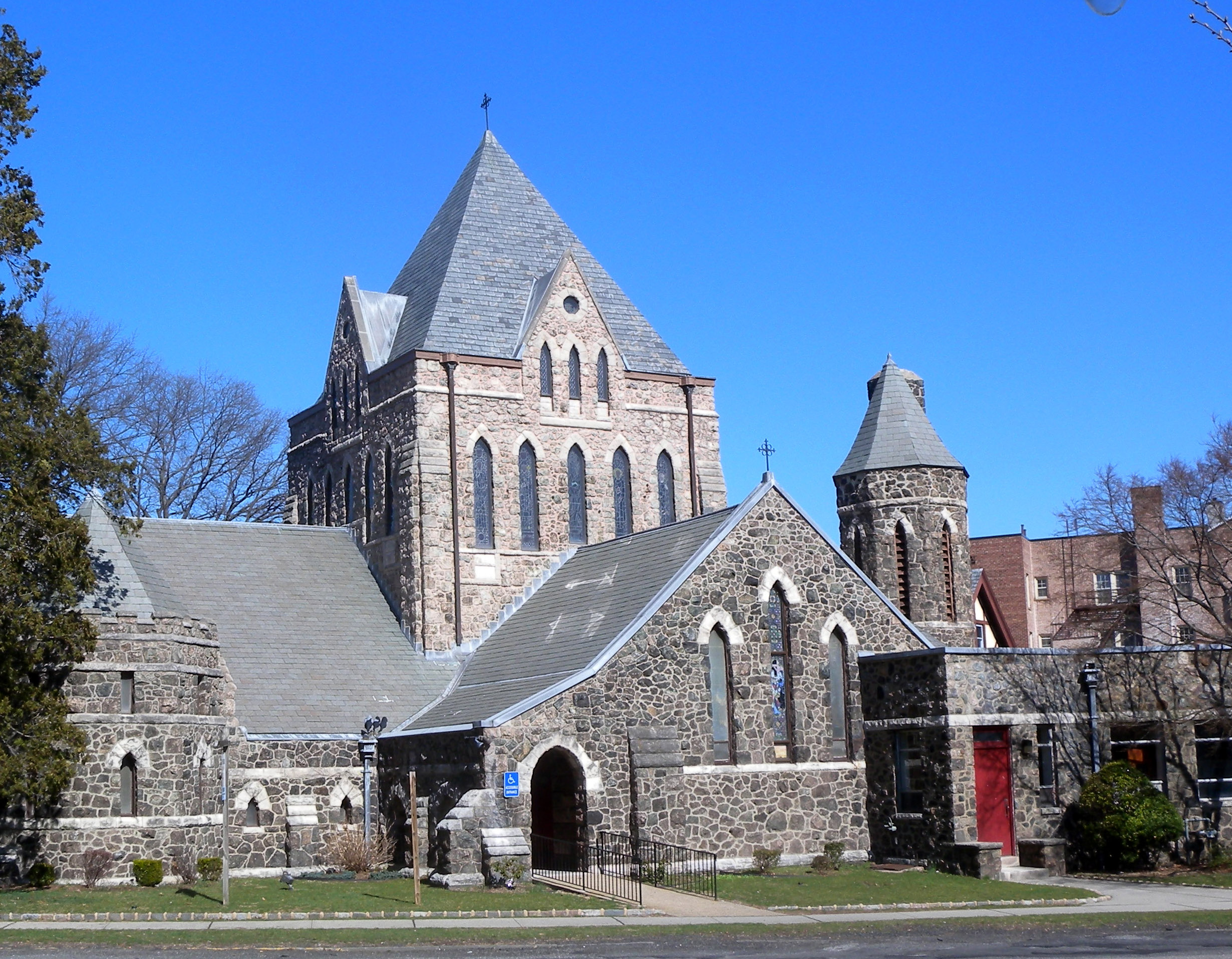 Looking northeast across Bloomfield Avenue at Christ Church, southern Glen Ridge, on a sunny early afternoon.